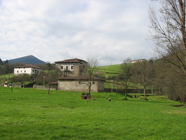 Tower of Bolunburu and church of Saint Anne in Zalla (Biscay, Spain)